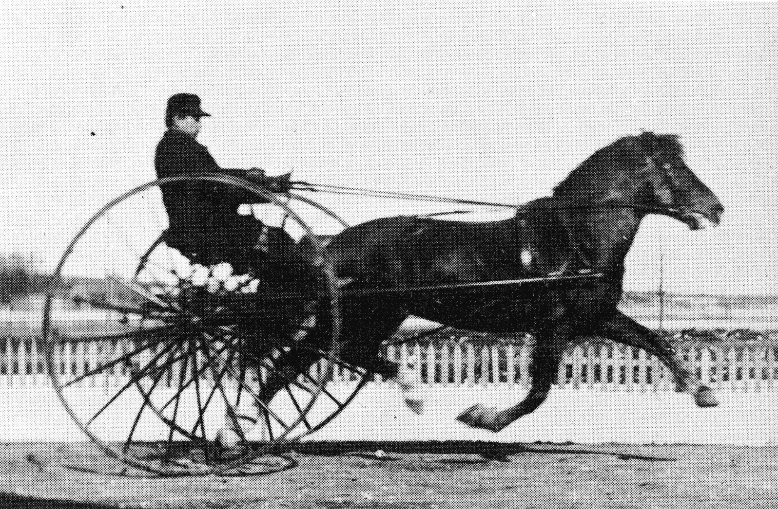 The Finnhorse stallion Kirppu Tt 710 pulling an early sulky